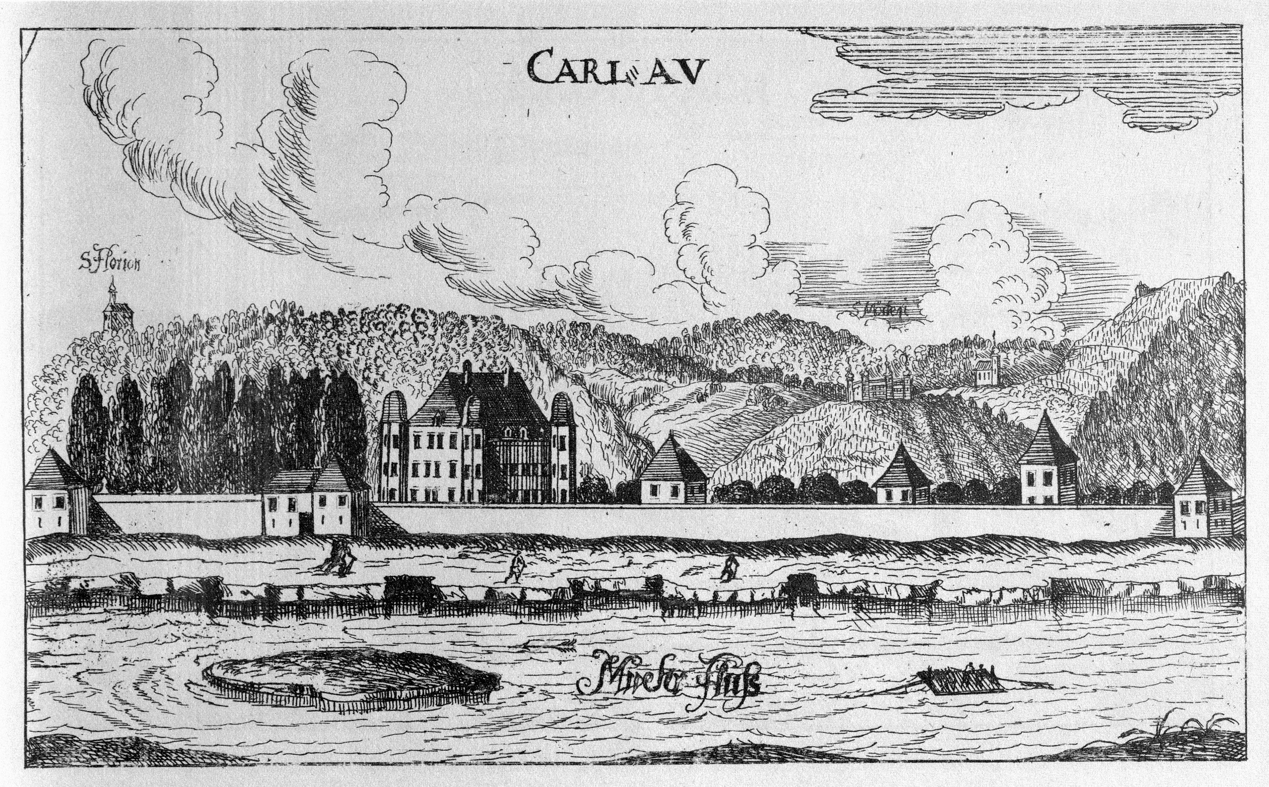 Castle Karlau, Graz, Austria, Engravings by G. M. Vischer